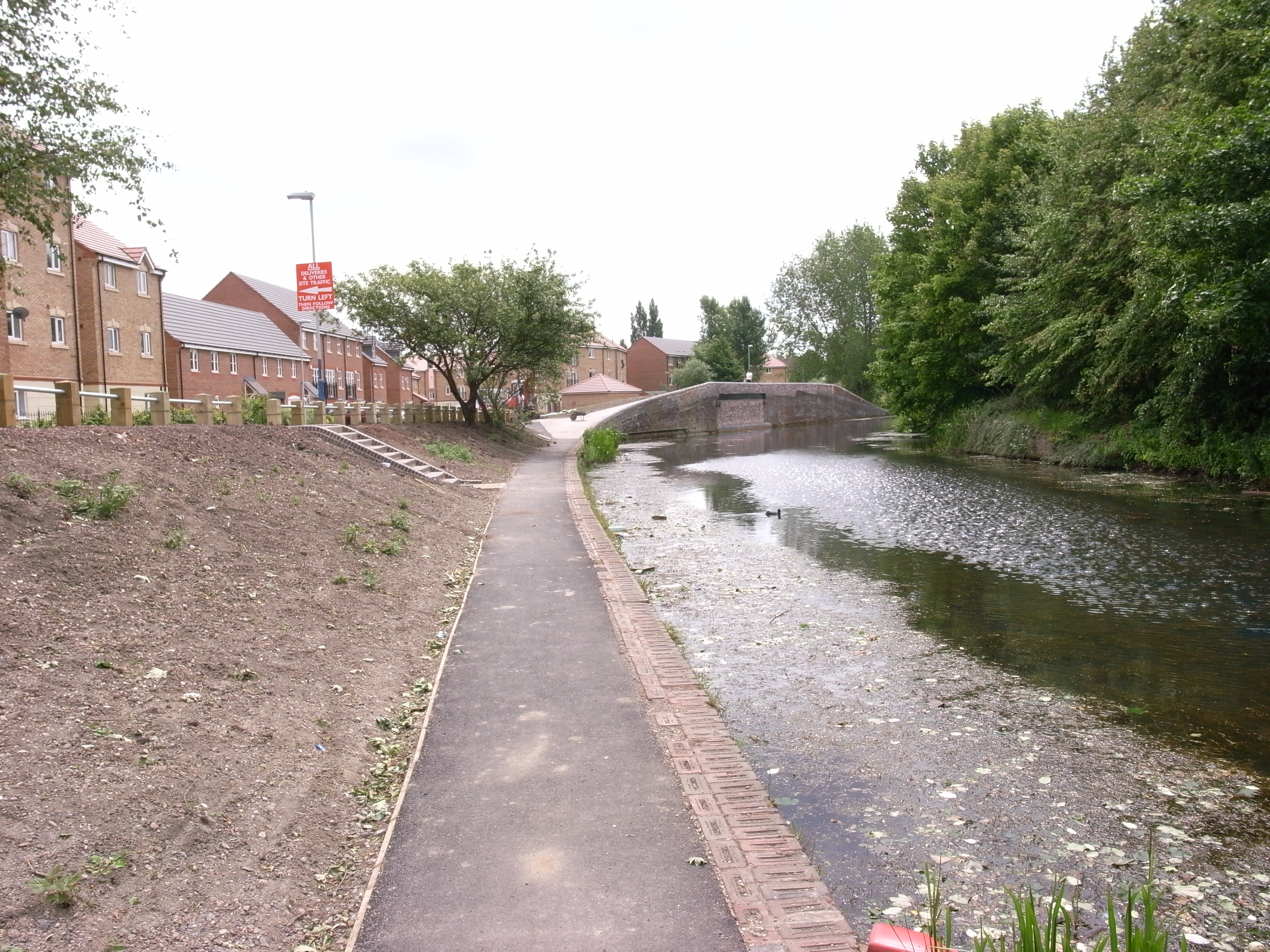 Loxdale Sidings. Part of the Wednesbury Oak Loop canal near Bradeley, West Midlands (county), England. Taken from just past Pothouse Bridge. The filled-in side bridge marks the course of the original James Brindley canal, now filled-in and built upon. A short-cut of one of the loops continues to the right for a few hundred yards to the British Waterways yard at the current termunus of the Wednesbury Oak Loop.